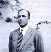 Picture of the IMRO leader Ivan Mihailov.